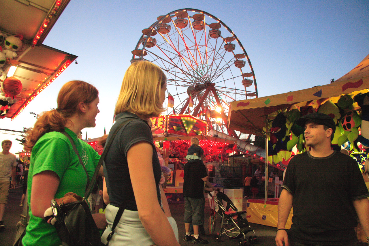 What should we win next?